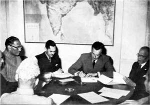 Lord Mountbatten signing the Standstill Agreement with Hyderabad. On his right are Nawab Moin Nawaz Jung and other Hyderabad delegates.